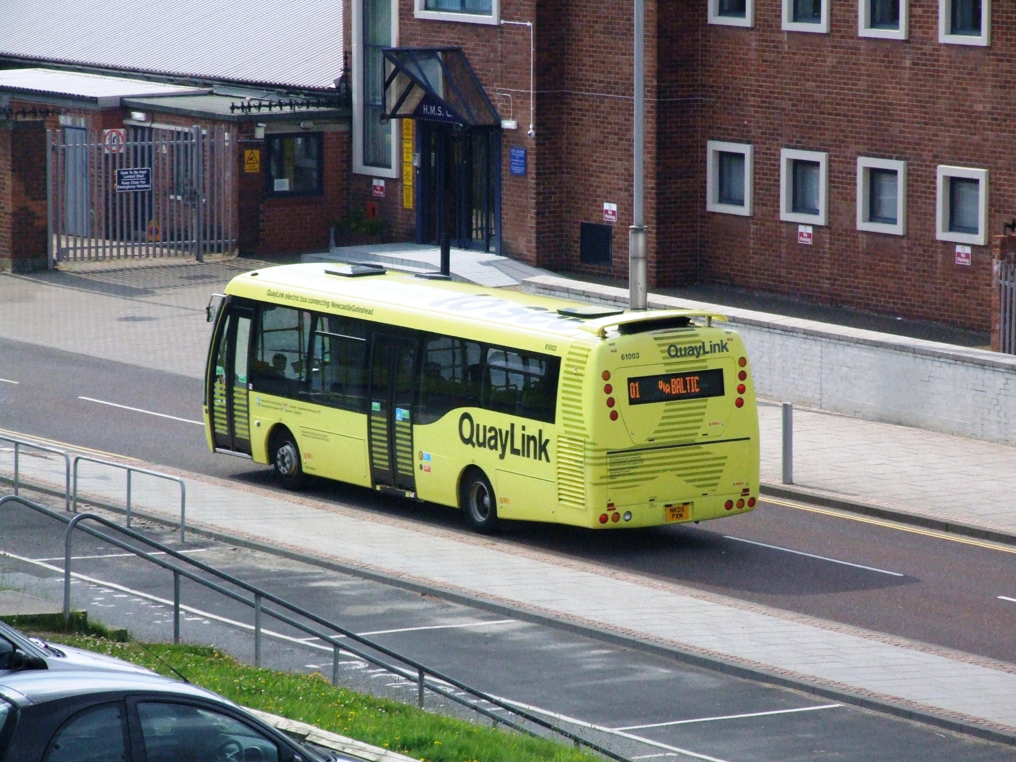 Andy C (talk) 22:19, 23 December 2007 (UTC)Newcastle Quaylink Bus, Summer 2007.